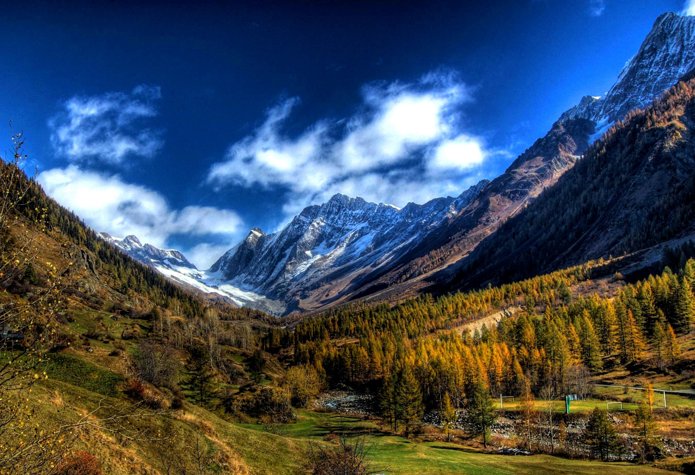 Lötschenlücke (pass) and to its right: Sattelhorn, Schirnhorn and Lötschentaler Breithorn. Upper Lötschental, Valais, Switzerland